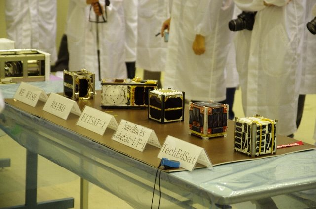 F-1 and other CubeSats at TKSC